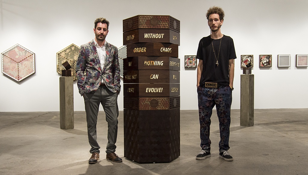 This is a portrait of the CYRCLE collective at one of their shows to be used on the CYRCLE wiki: Other information This photo will replace the current photo on the page.